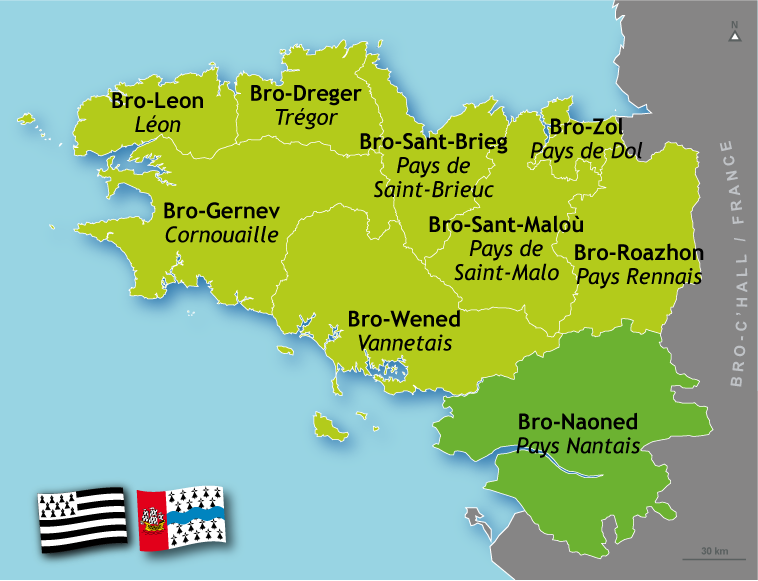 Position's map of Nantes Country (Brittany)